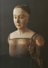 Funeral Effigy of Queen Elizabeth of York The undressed funeral effigy. Wood, with ? plaster and paint